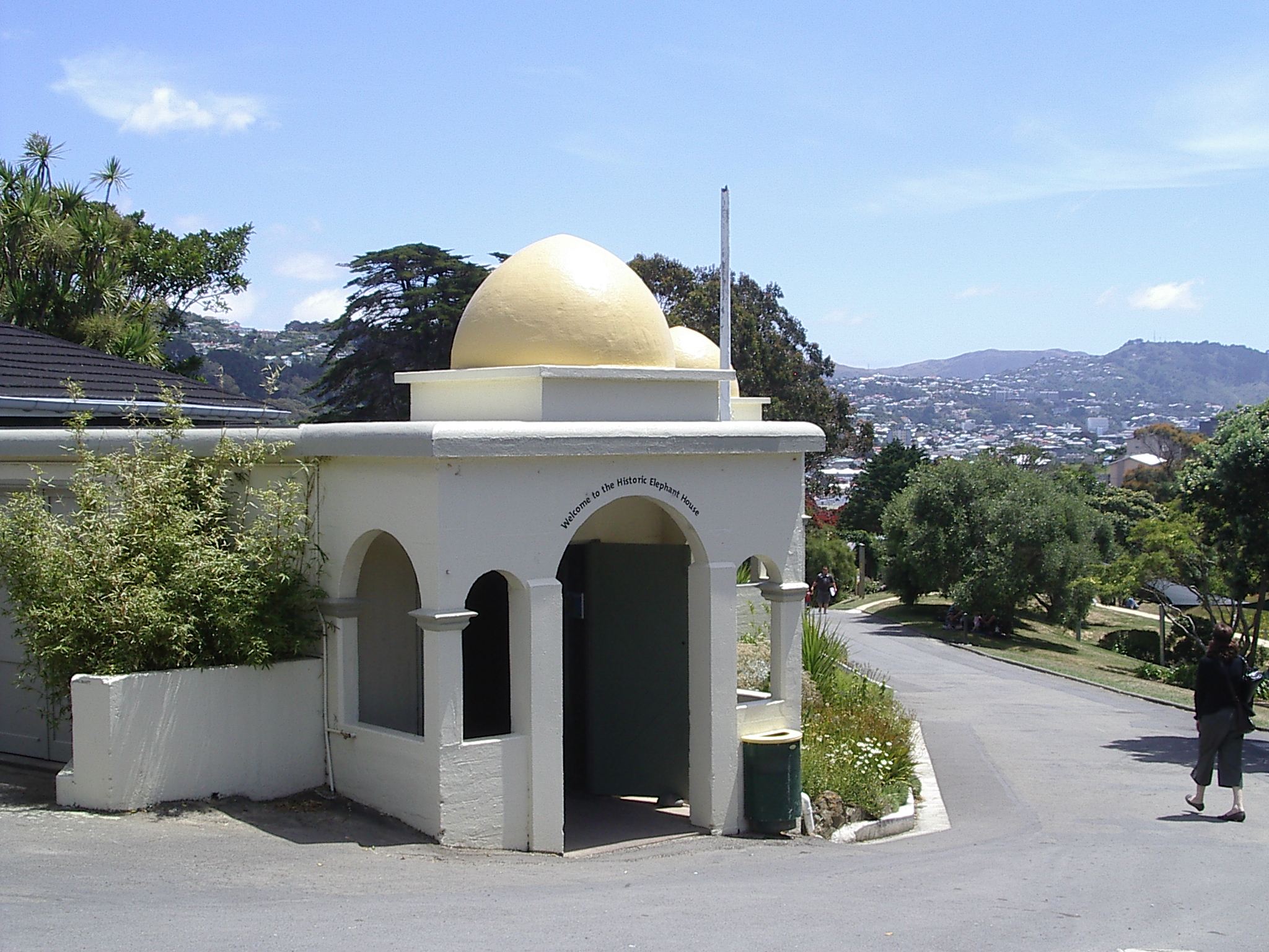 The Historic Elephant House at Wellington Zoo, Wellington, New Zealand.